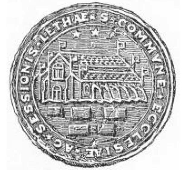 Picture of 1608 seal from 1911 book on South Leith Parish Church records